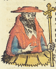 Woodcut from the Nuremberg Chronicle (Latin copy in Sao Paulo)